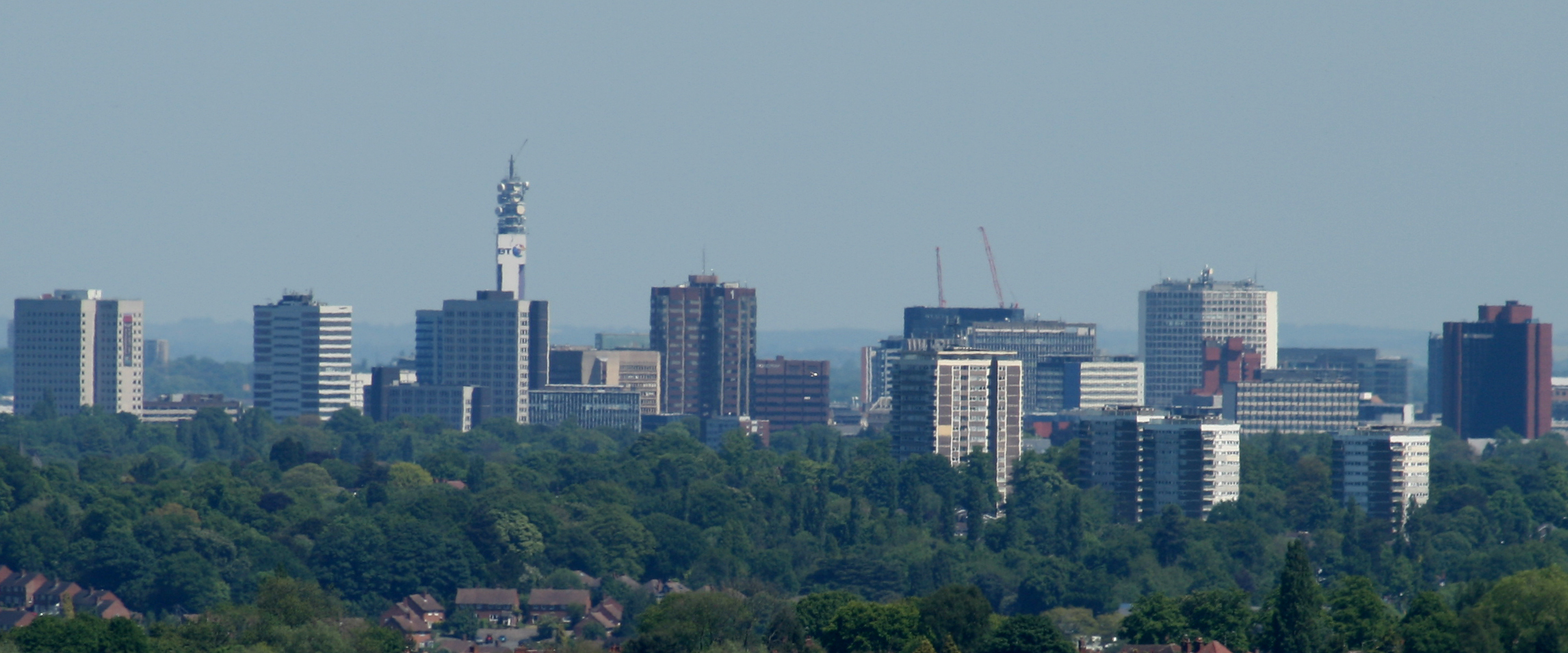 Birmingham Skyline from the west